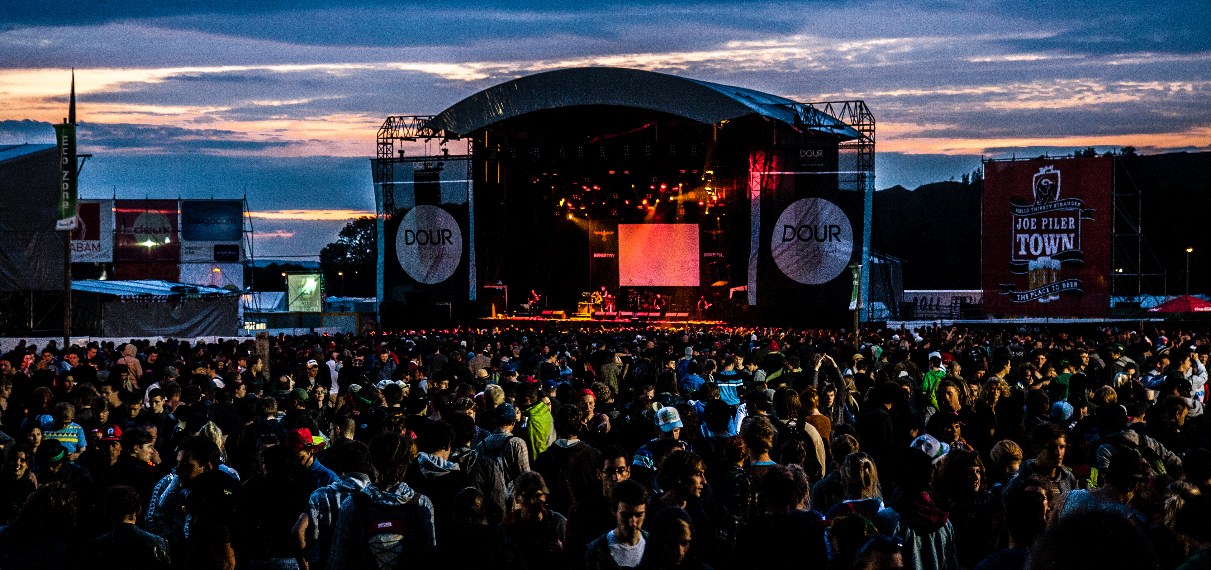 Follow me on facebook Twitter : @didyPhotography All the photographies I've made are now under CC0 (Creative Commons Zero) CC0 - learn more To the extent possible under law,Eddy BERTHIERhas waived all copyright and related or neighboring rights to Last Arena - Ministry @ Dour 2012.This work is published from:France.